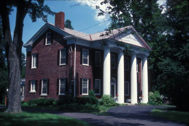 HUNT HOUSE IN NEARBY WATERLOO, HOME OF JANE HUNT, ONE OF THE 5 CO-SPONSORS OF THE CONVENTION